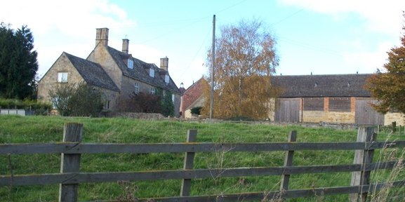 Dunsden Farm, Todenham Seen from the minor road from the Fosse Way, Dunsden farm is one of six farms in Todenham within a 500 metre square.